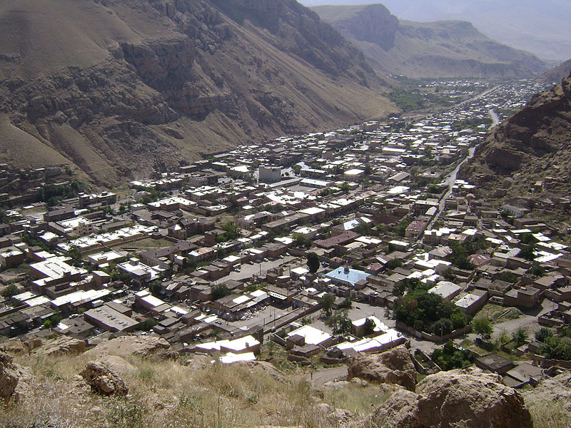 Maku city, West Azerbaijan- İran